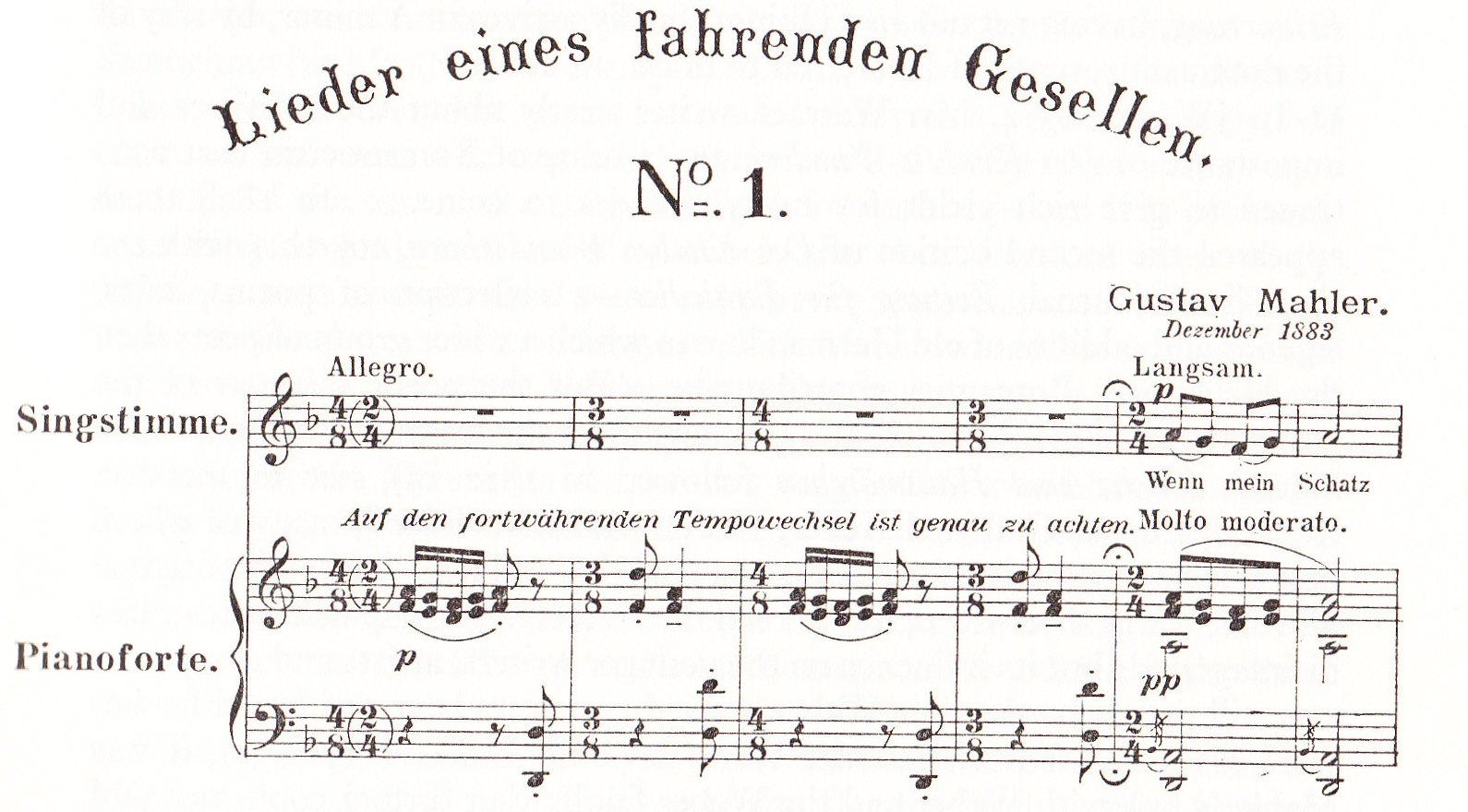 First few bars from the first printed edition (1897) of Lieder eines fahrenden Gesellen by Gustav Mahler